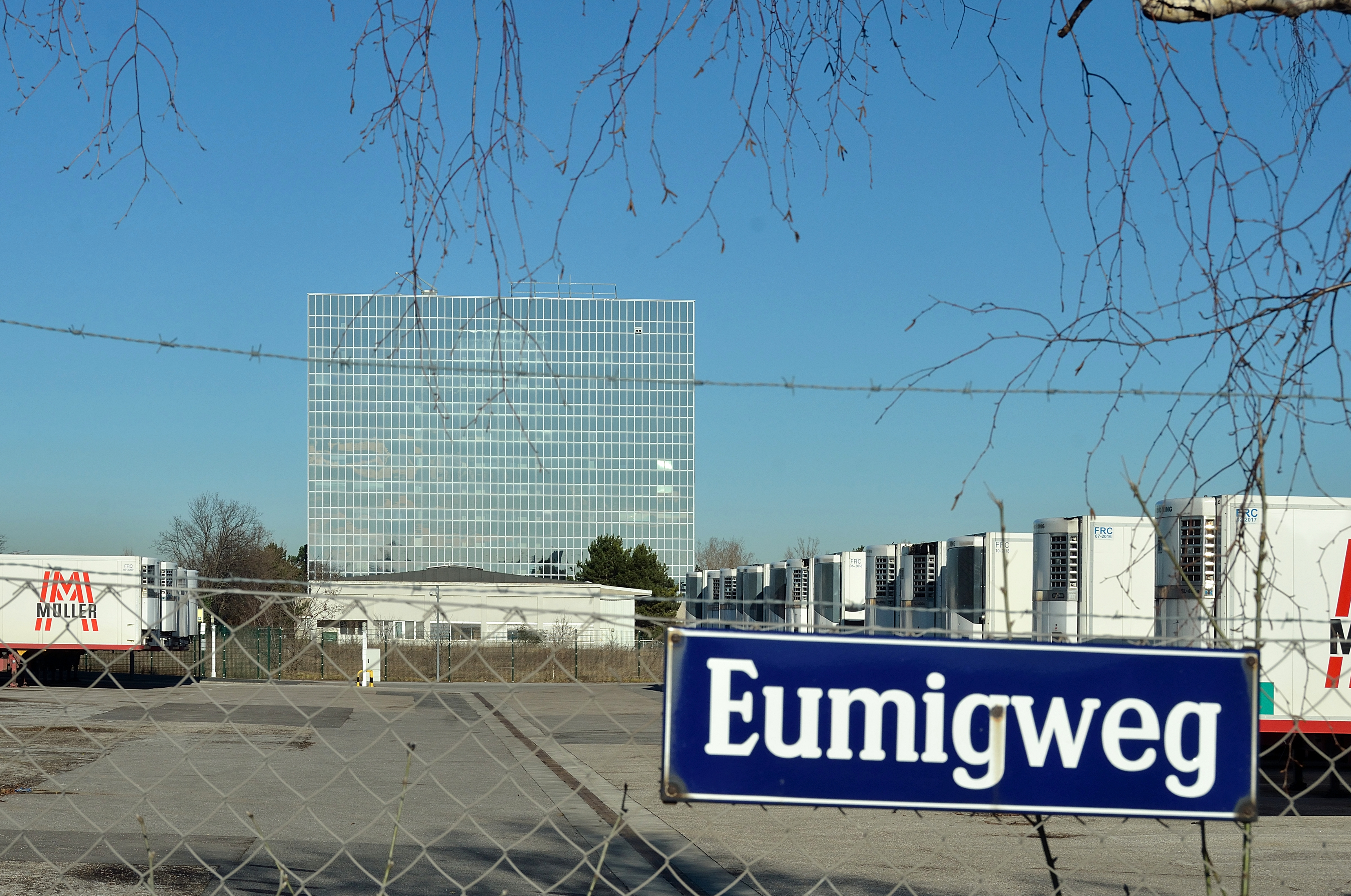 The building was created for Eumig in 1956. After insolvency of Eumig, the building was used by Palmers until 2014. It is located in the industry zone of Wiener Neudorf.